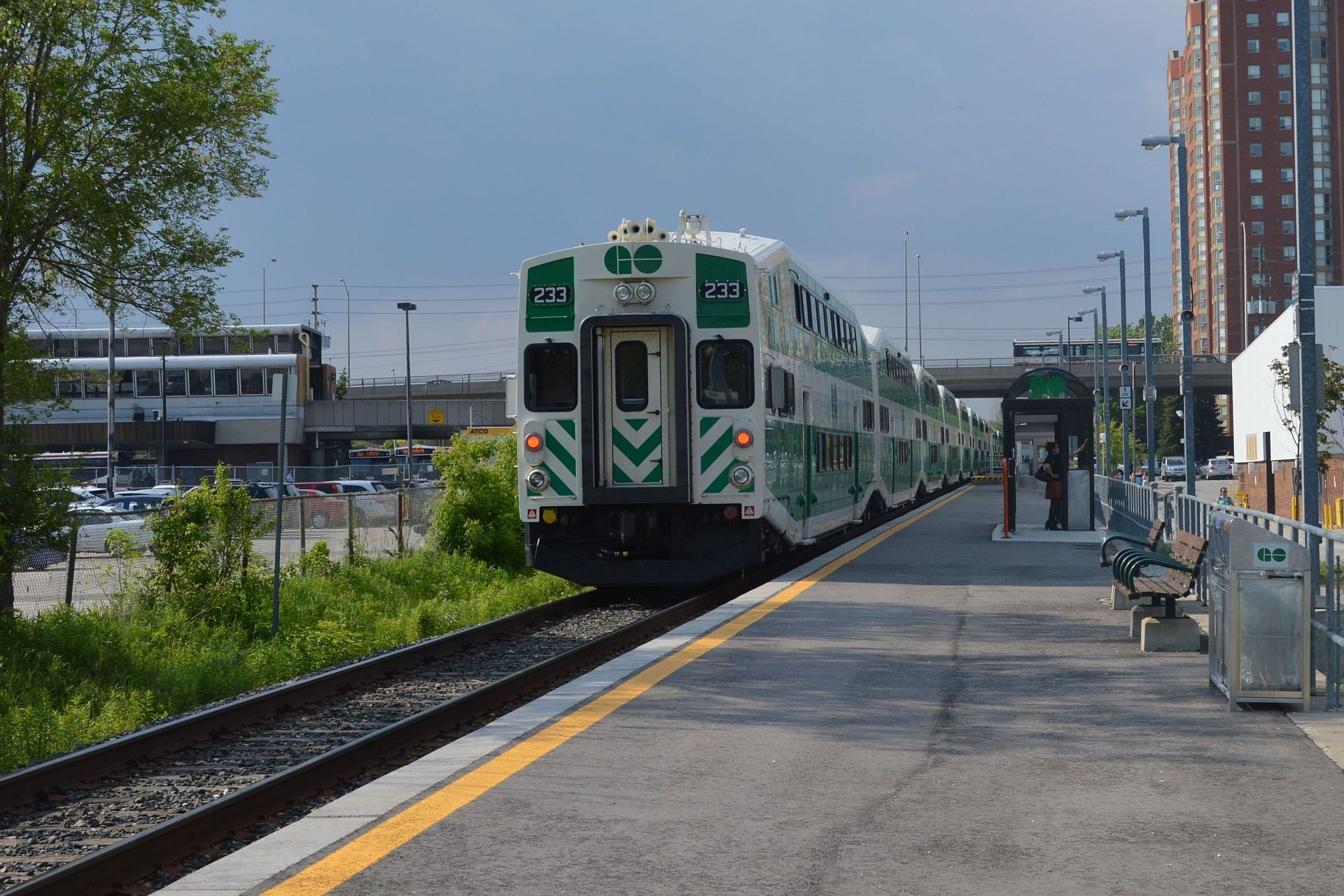 Kennedy GO Station